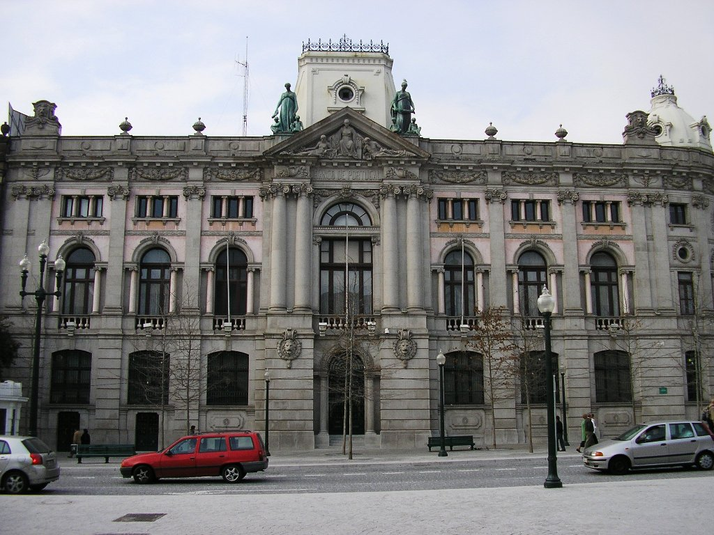 Bank of Portugal building in Porto, Portugal. Author: Manuel de Sousa.